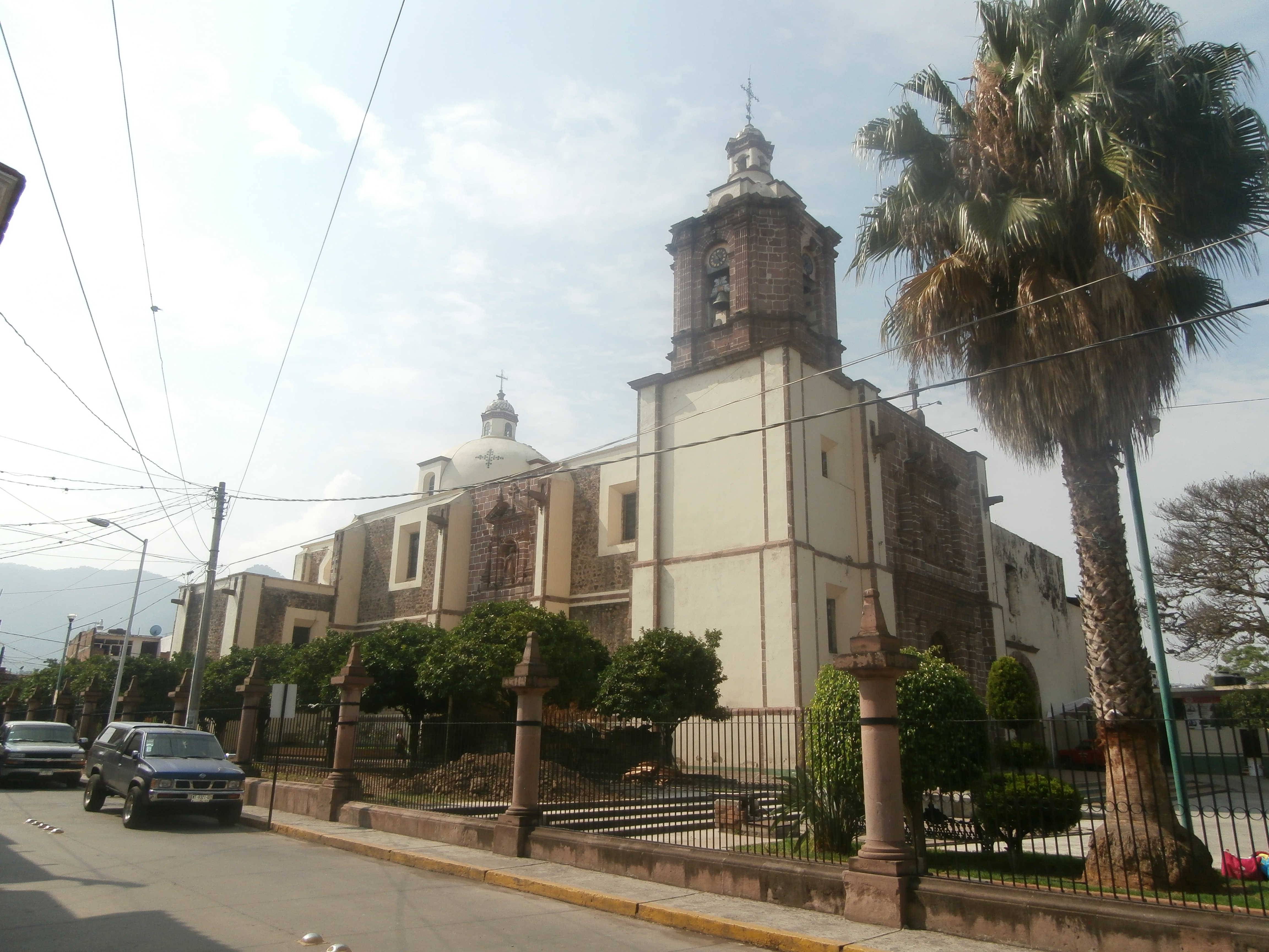 Parish of Santiago Apostol, Tuxpan, Michoacán